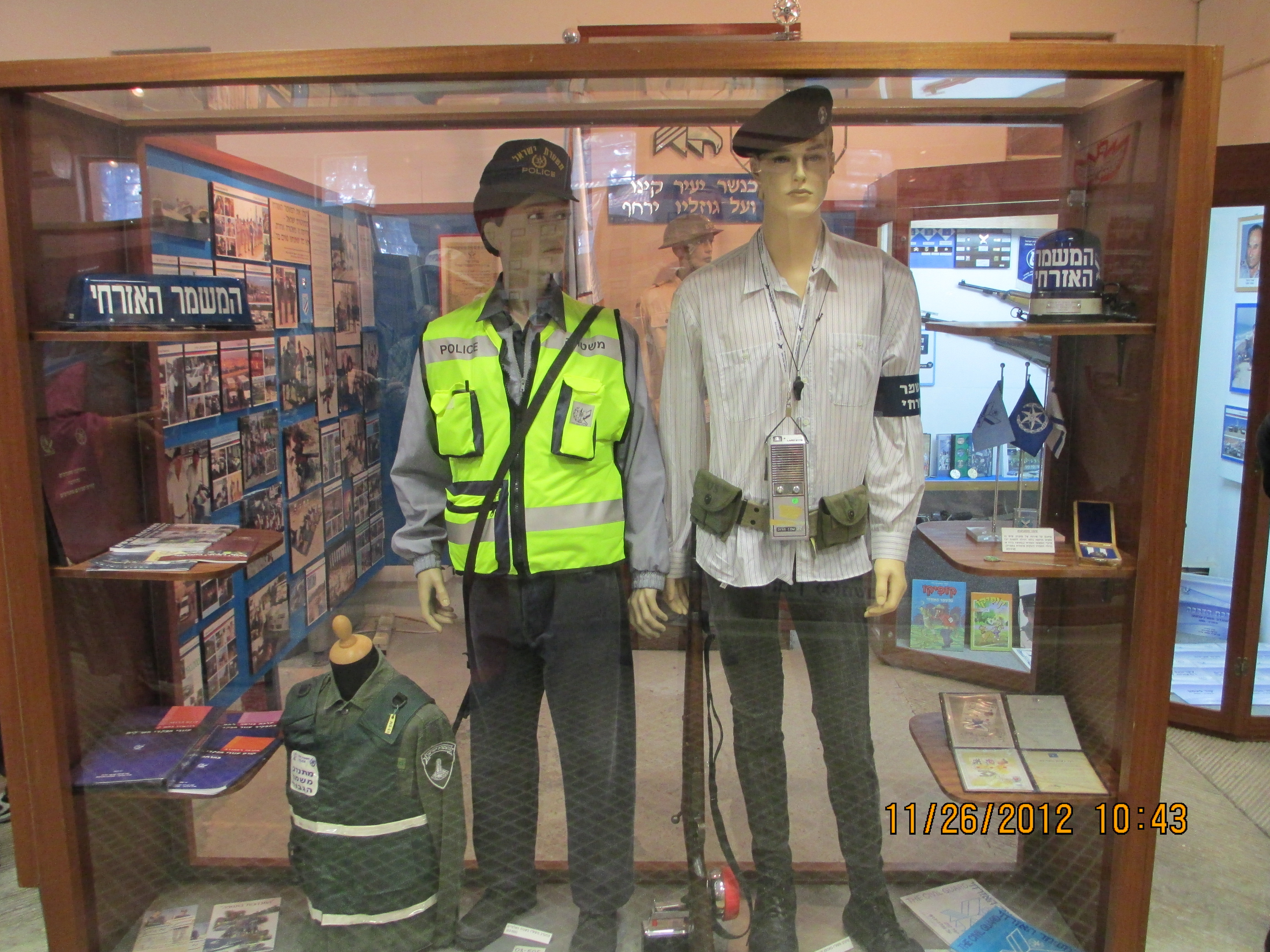 civil guard exhibition in police training school in kiryat ata תצוגת המשמר האזרחי במוזיאון מורשת המשטרה במרכז ללימודי משטרה בקריית אתא